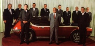 Scan of an American Motors photo showing the AMC Board of Directors standing by the AMX GT concept car. The image was freely provided. Source: original 1968 AMC annual report. The image was freely provided to promote this item with the intention that it be distributed for "free" by the media to the public. 1968 American Motors Corporation Board of Directors: left to right, front - Roy D. Chapin Jr., William V. Luneburg, Richard E. Cross; left to right, back - Jackson W. Tarver, William B. Stirton, Alexander B. Towbridge, Robert B. Evans, Don G. Mitchell, Paul B. Wishart, M. Frederik Smith, Harcourt Amory; not in picture - Edward L. Cushman, J. Willard Marriott, William C. Scott.